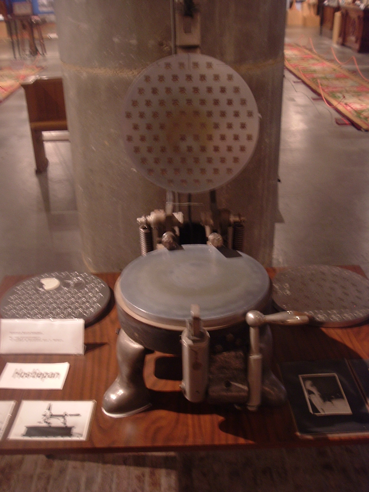 Machine to make hosts, Museum Kijk-je kerk-kunst, Gennep, The Netherlands